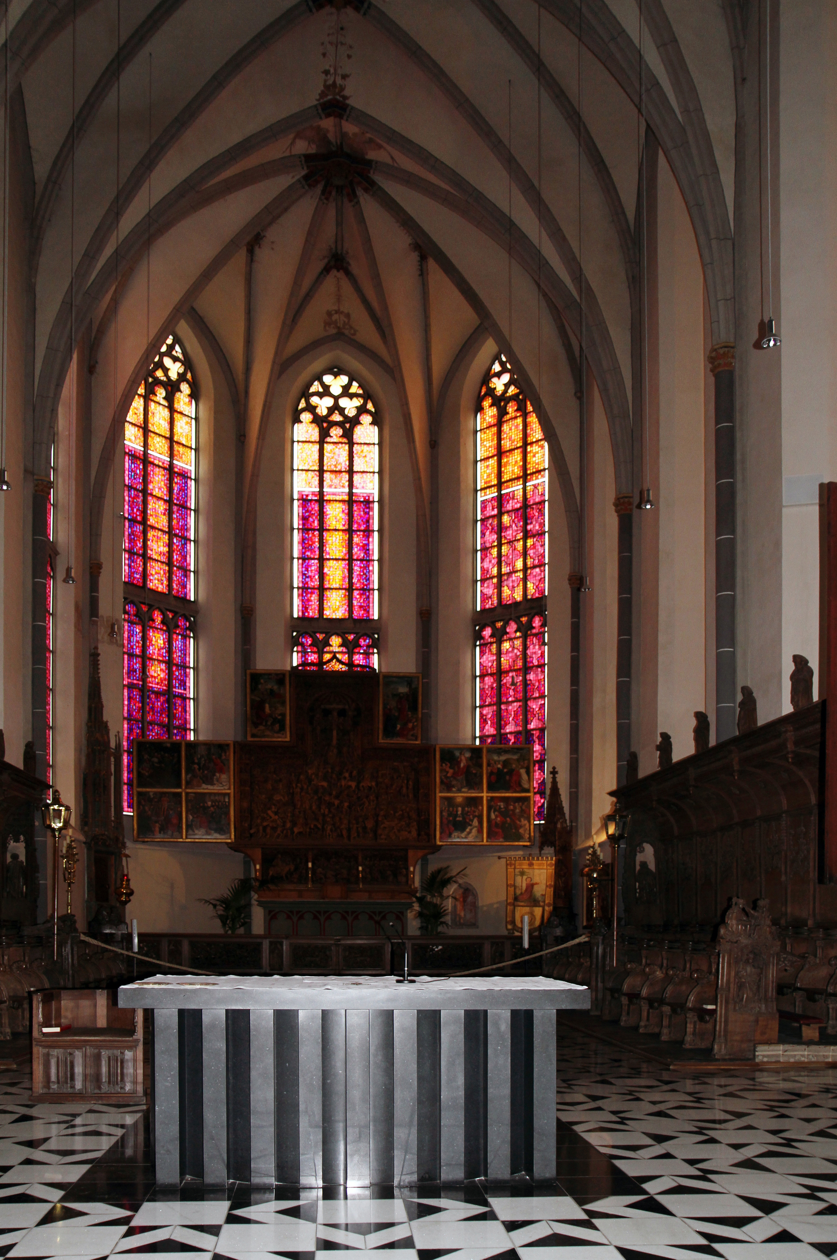 Church of Saint Nicholas, Kalkar, in North Rhine-Westphalia, Germany